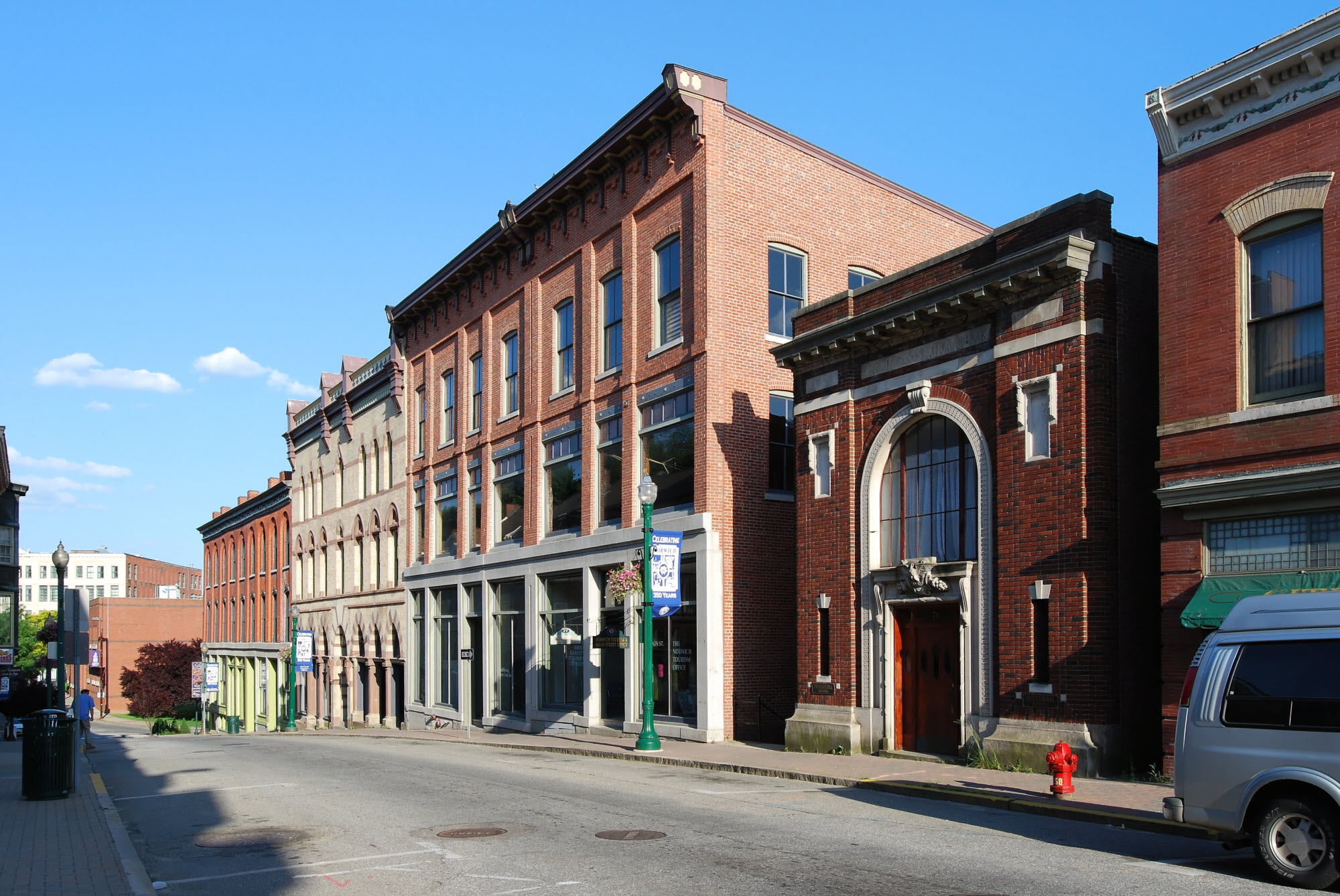 Main Street, Historic Downtown Norwich, Connecticut